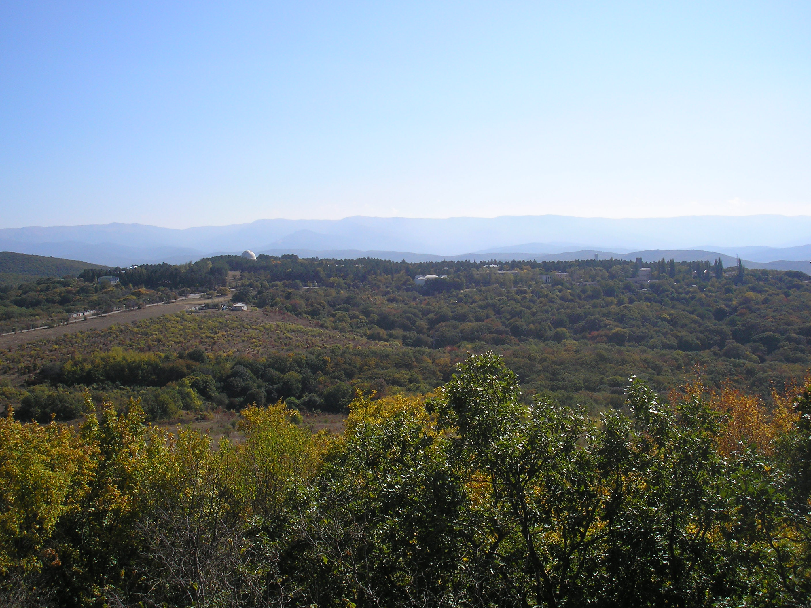 Village Nauchniy, Bakhchisaray district, Crimea